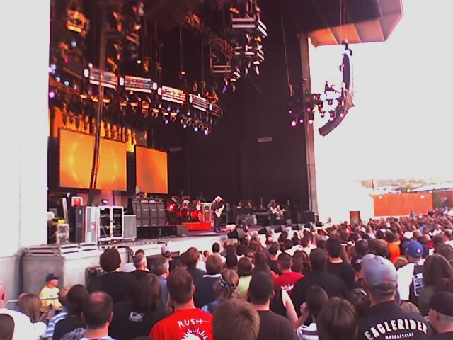 Rush (band) playing at the USANA Amphitheater (West Valley City, UT) on tour in August 2007